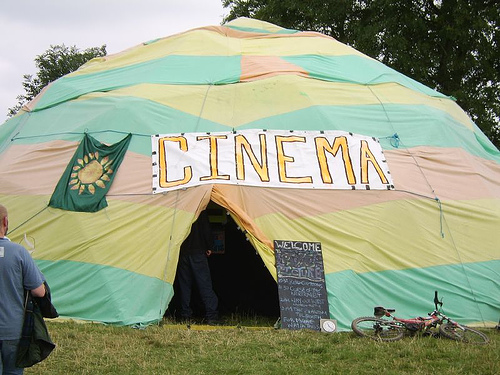 The Cinema - Big Green Gathering 2006 at Mendip Hills near Cheddar, Somerset